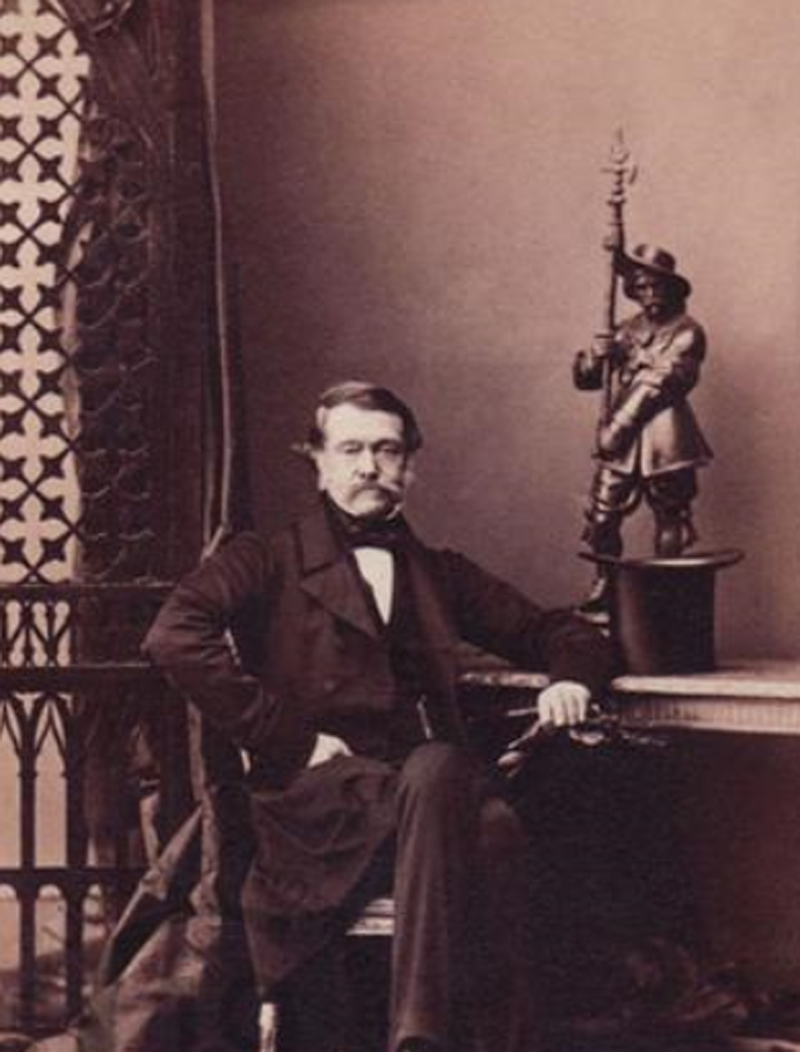 John Yarde-Buller, 1st Baron Churston, owner of Lupton House, Brixham, 1861